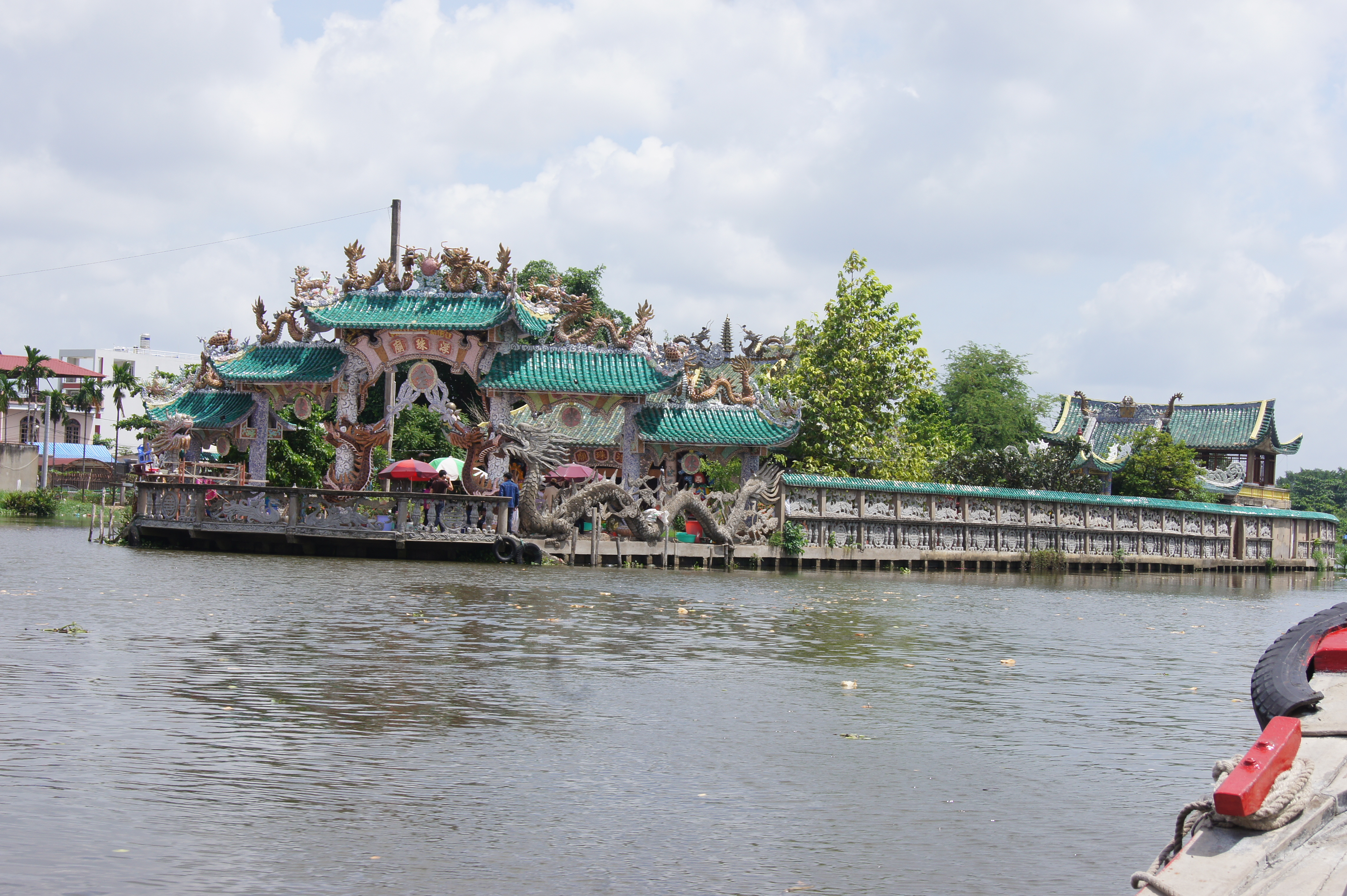 Miếu Nổi (Floating Temple), a Chinese-Vietnamese temple on the Vam Thuat river, Gò Vấp district, Gia Định province (now "HCMC")